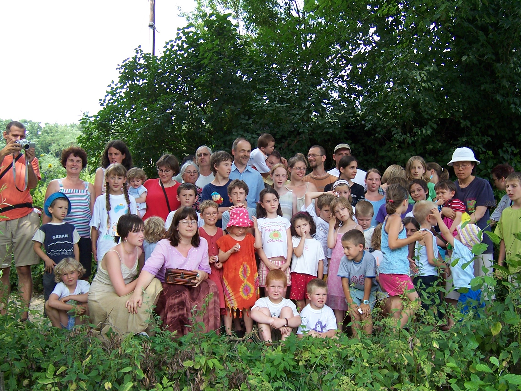 Esperanto-Families Meeting 2006 in Pilský Mlýn near Sedlice (Czech Republic) - common photo